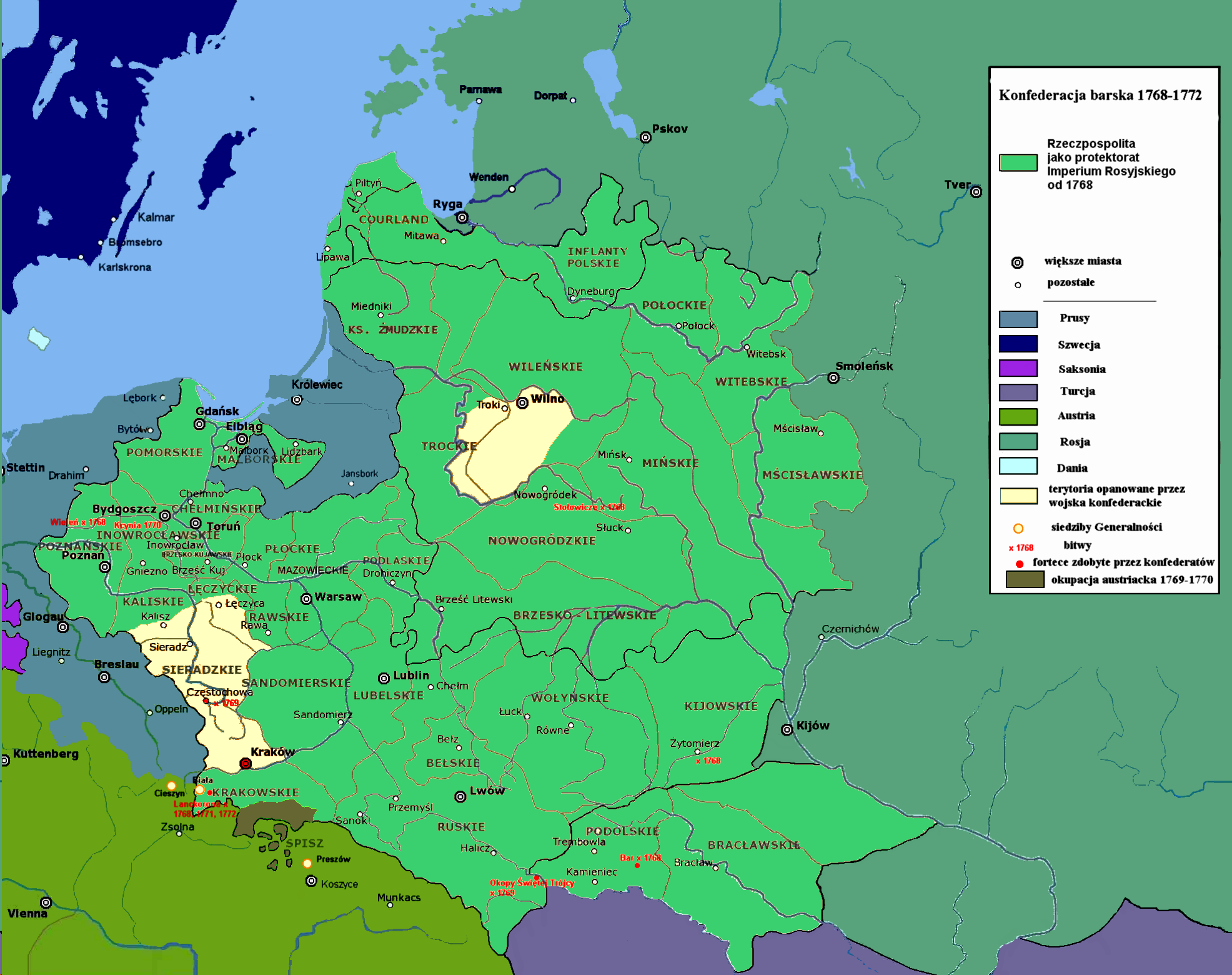 Bar Confederation 1768-1772